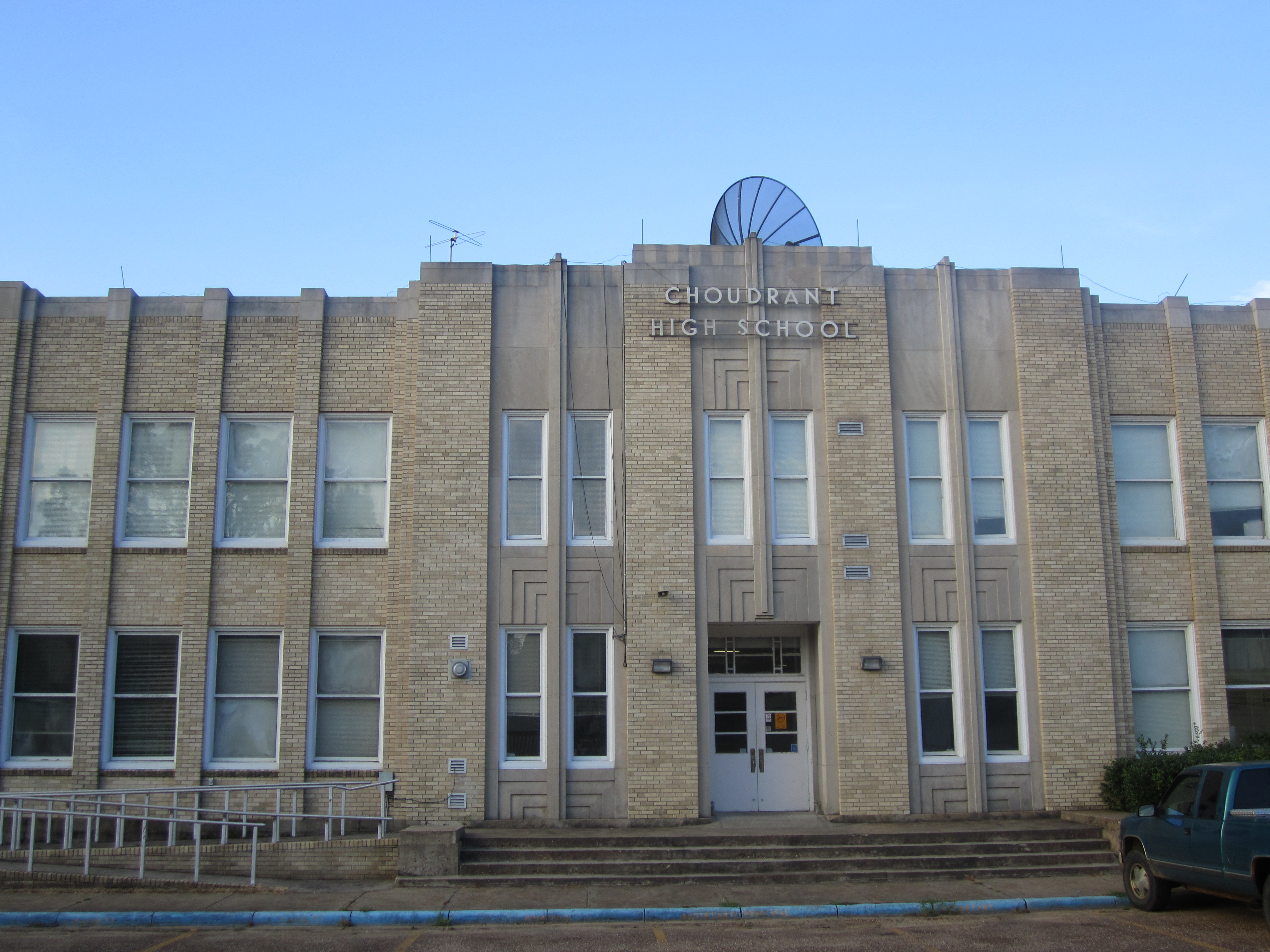 I took photo with Canon camera in Choudrant, LA.